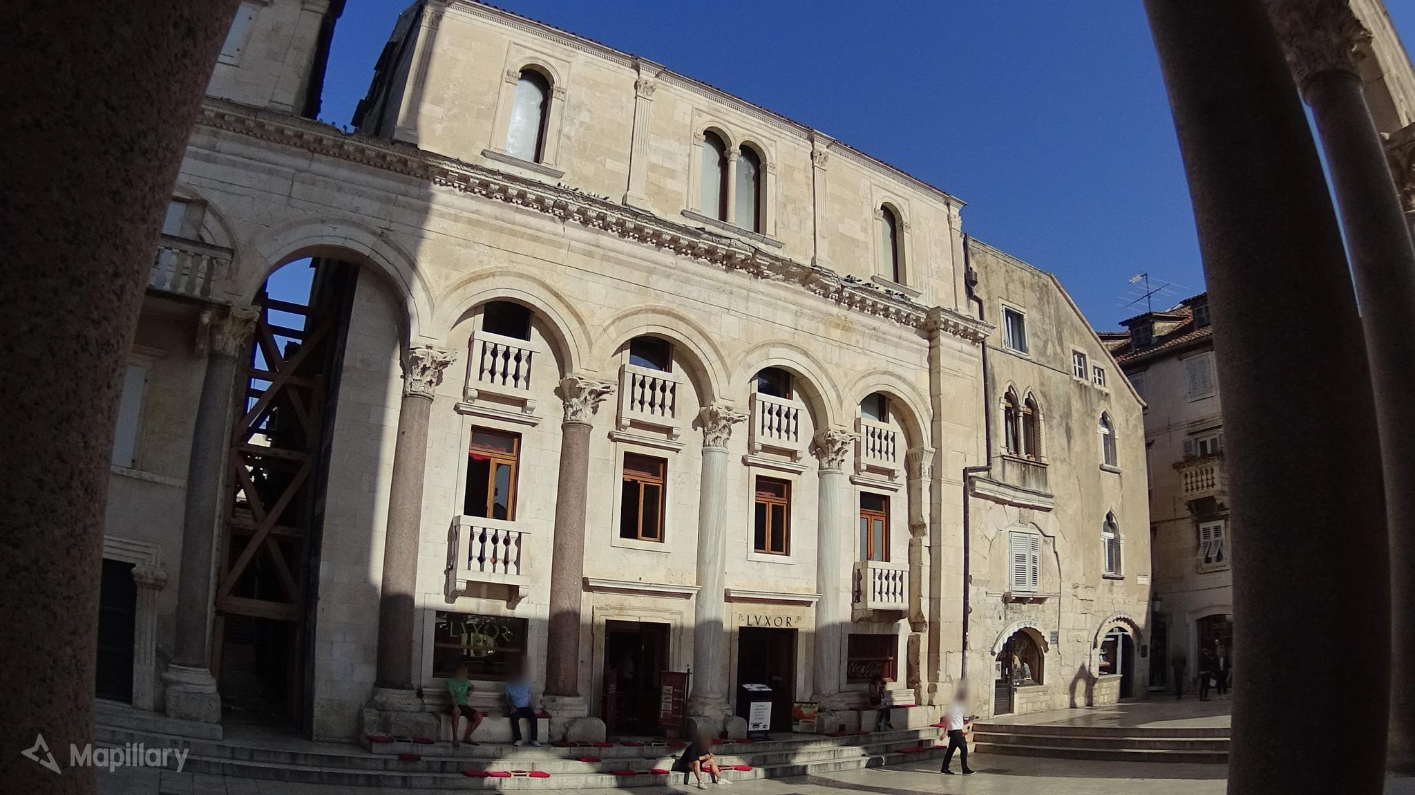 Photo of Palace Grisogono from Peristil